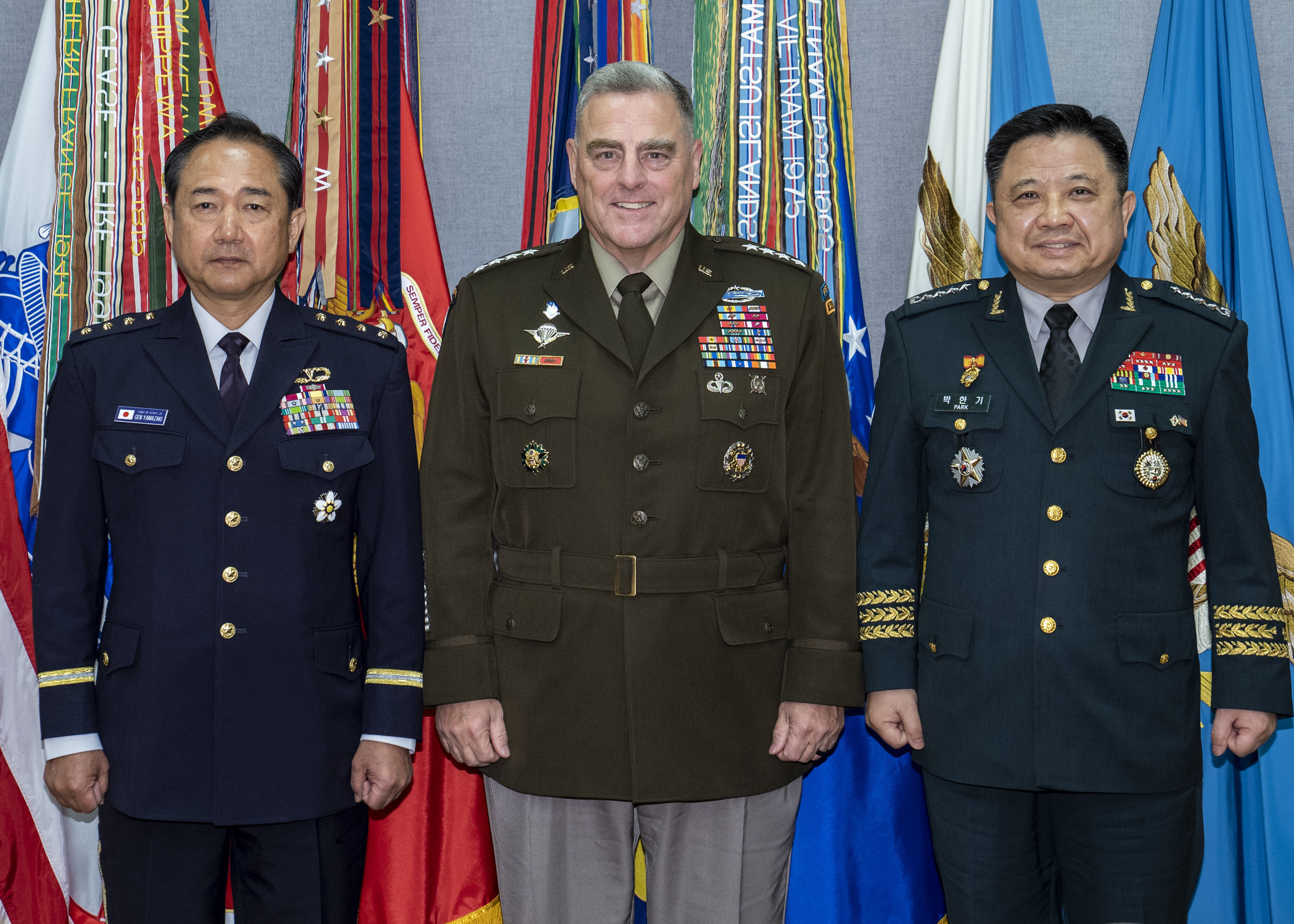 WASHINGTON - Chairman of the Joint Chiefs of Staff Army Gen. Mark A. Milley hosts Chairman of the Republic of Korea Joint Chiefs of Staff Gen. Hanki Park and Japanese Chief of Staff, Joint Staff Gen. Koji Yamazaki for a multilateral meeting Oct. 1 at the Pentagon, Washington, D.C.